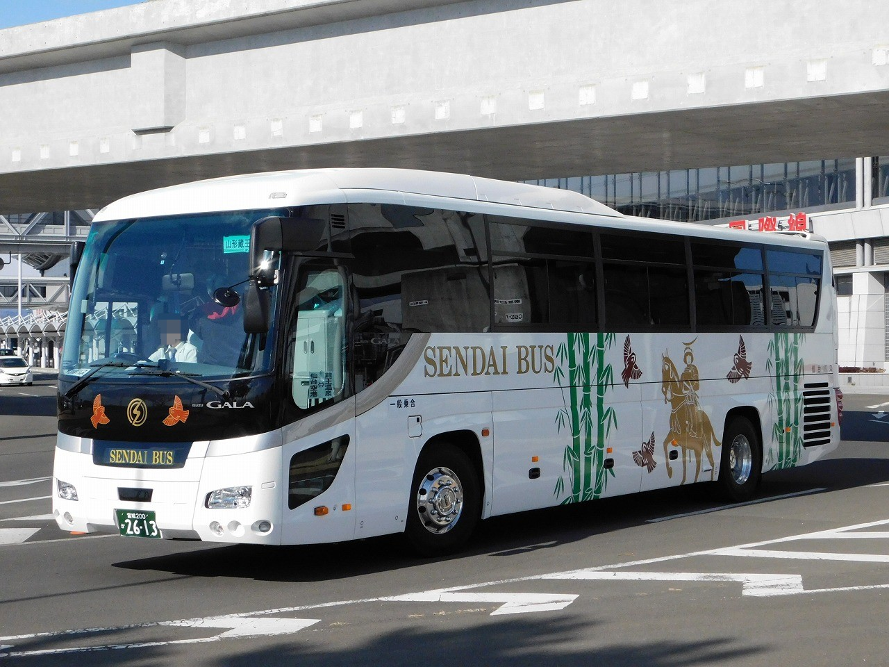 Sendai bus Isuzu Gala (QTG-RU1ASCJ) highwaybus "Yamanaga-Zao go" (Sendai Airport-Zao hot springs)